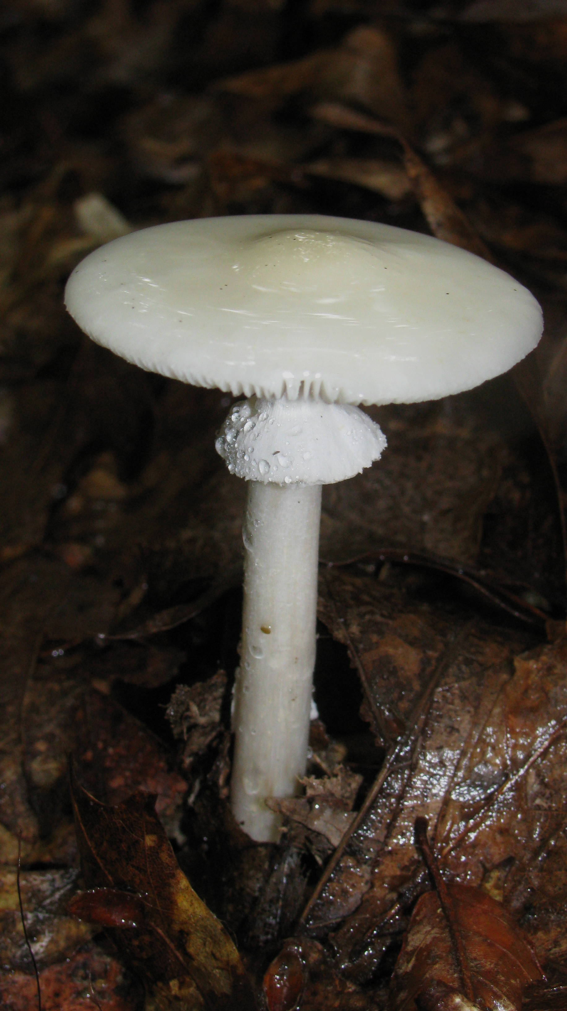 The mushroom Amanita aestivalis Singer ex Singer. Photographed in Strouds Run State Park, Athens, Ohio, USA. Notes: "Found under mixed hardwoods in the rain."